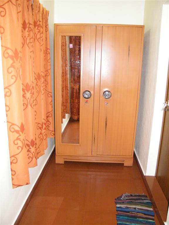 Indian Almirah